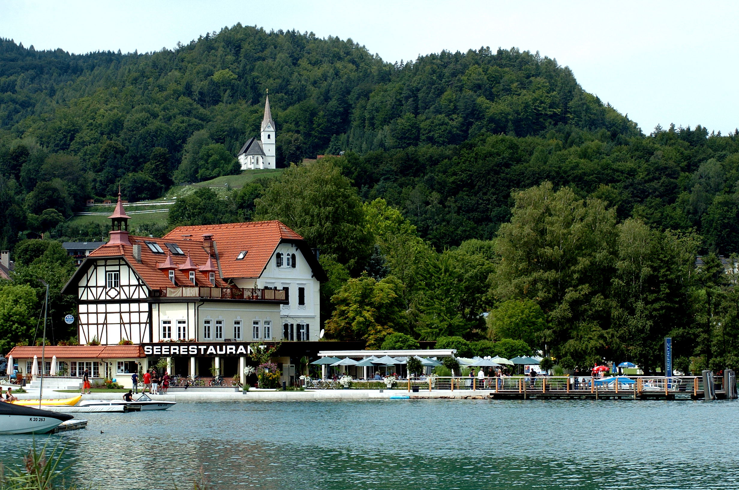 Restaurant Sille in the bay of Reifnitz on the Lake Woerth, behind above the subsidiary church Saint Anna, municipality Maria Woerth, district Klagenfurt-Land, Carinthia, Austria